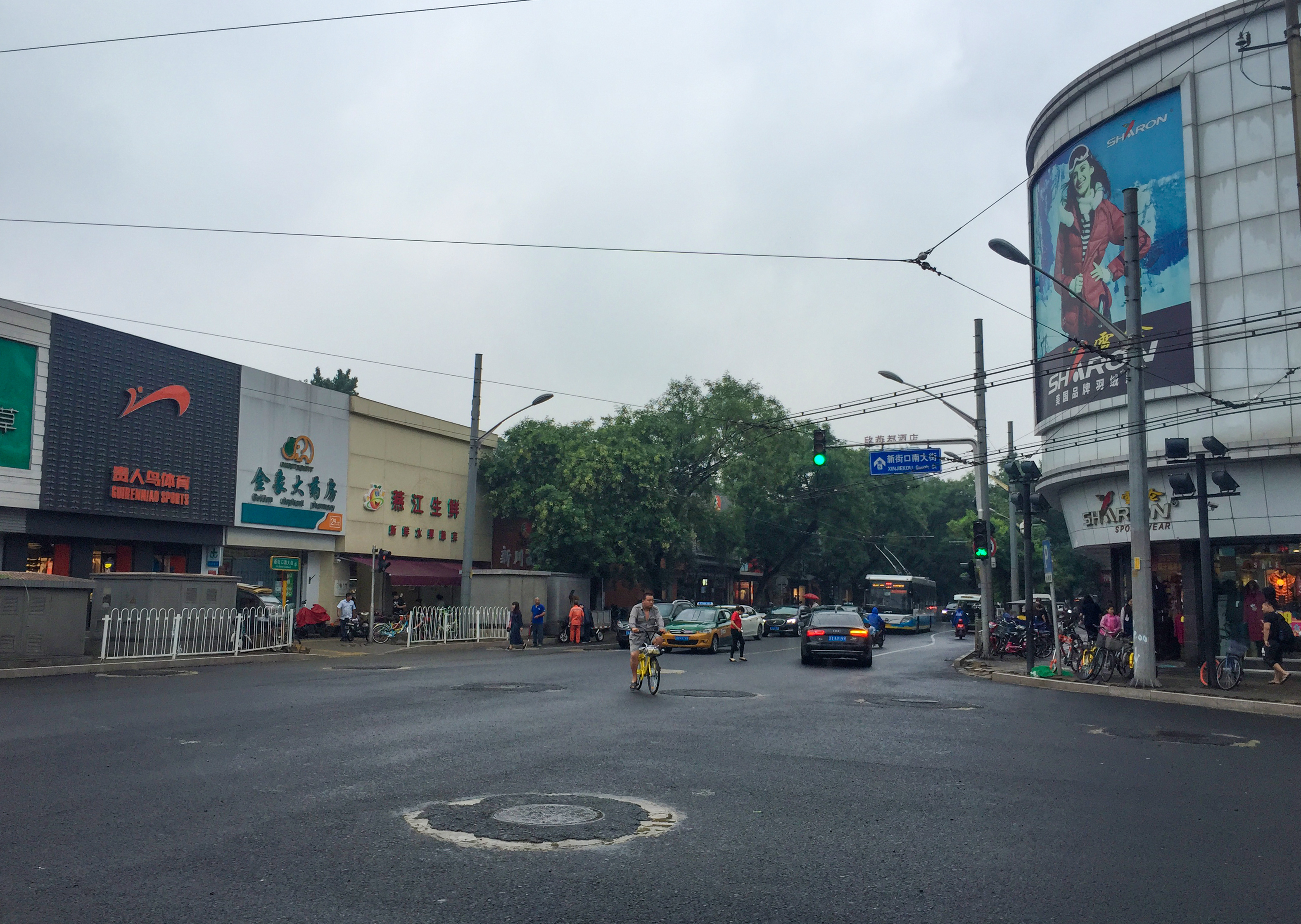 Seen from the north. A trolleybus 111 is approaching.